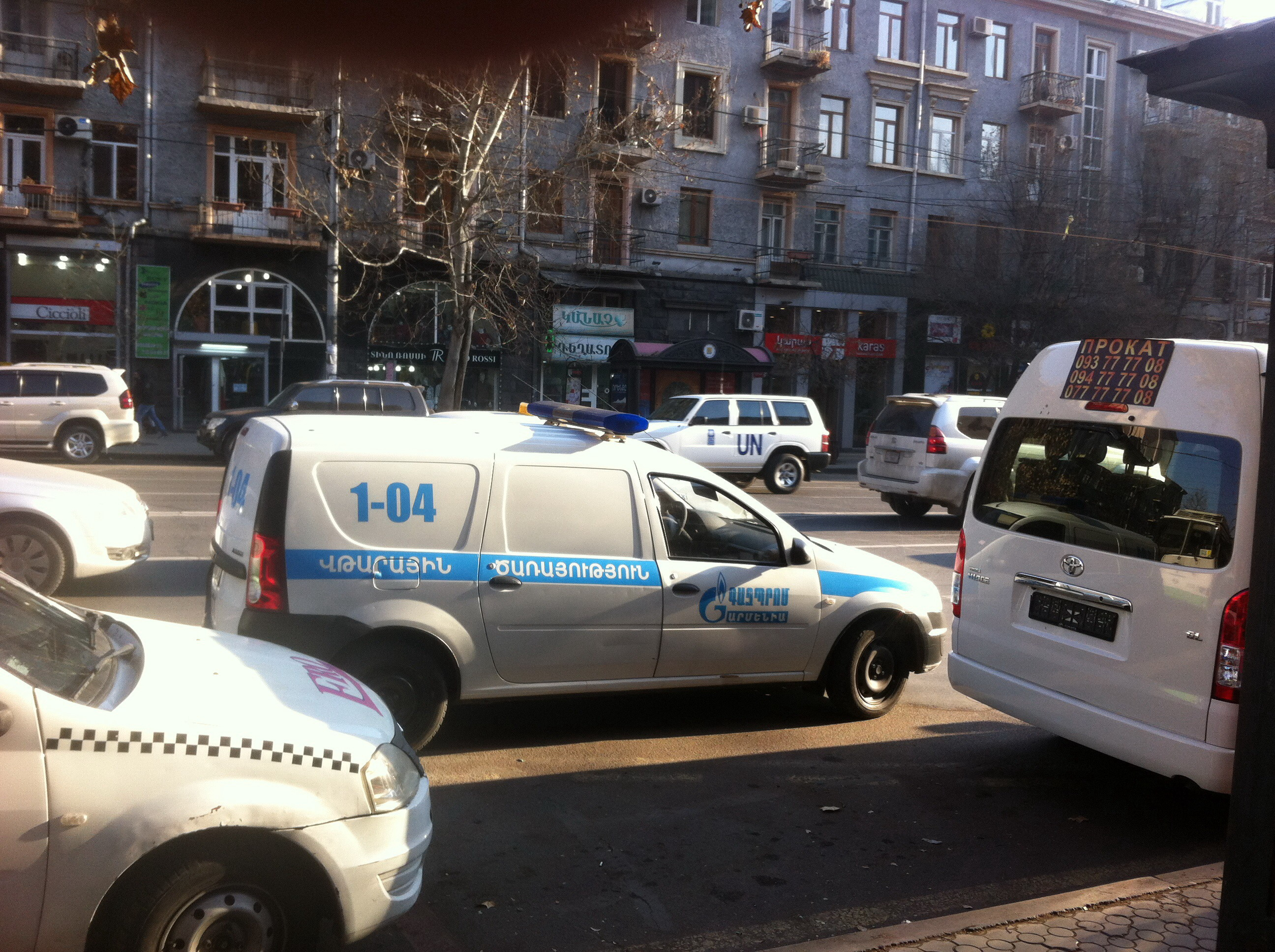 Gazprom Armenia car in Erevan